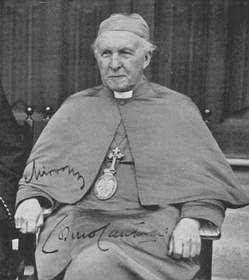 Cosmo Gordon Lang, Archbishop of Canterbury